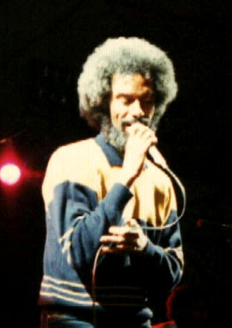 Performing at the WOMAD festival in Bristol, England